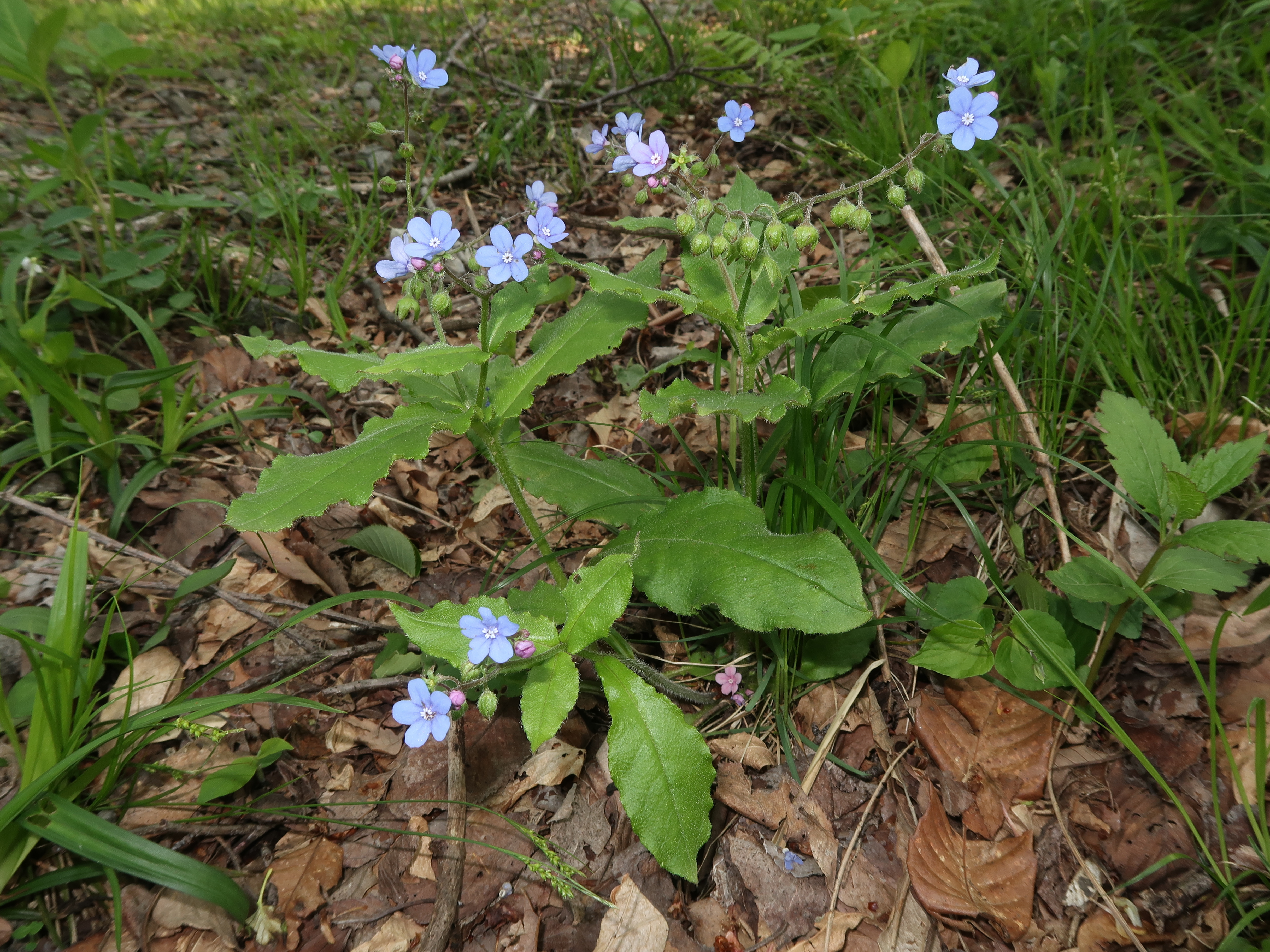 Omphalodes krameri , Akita city, Akita pref., Japan